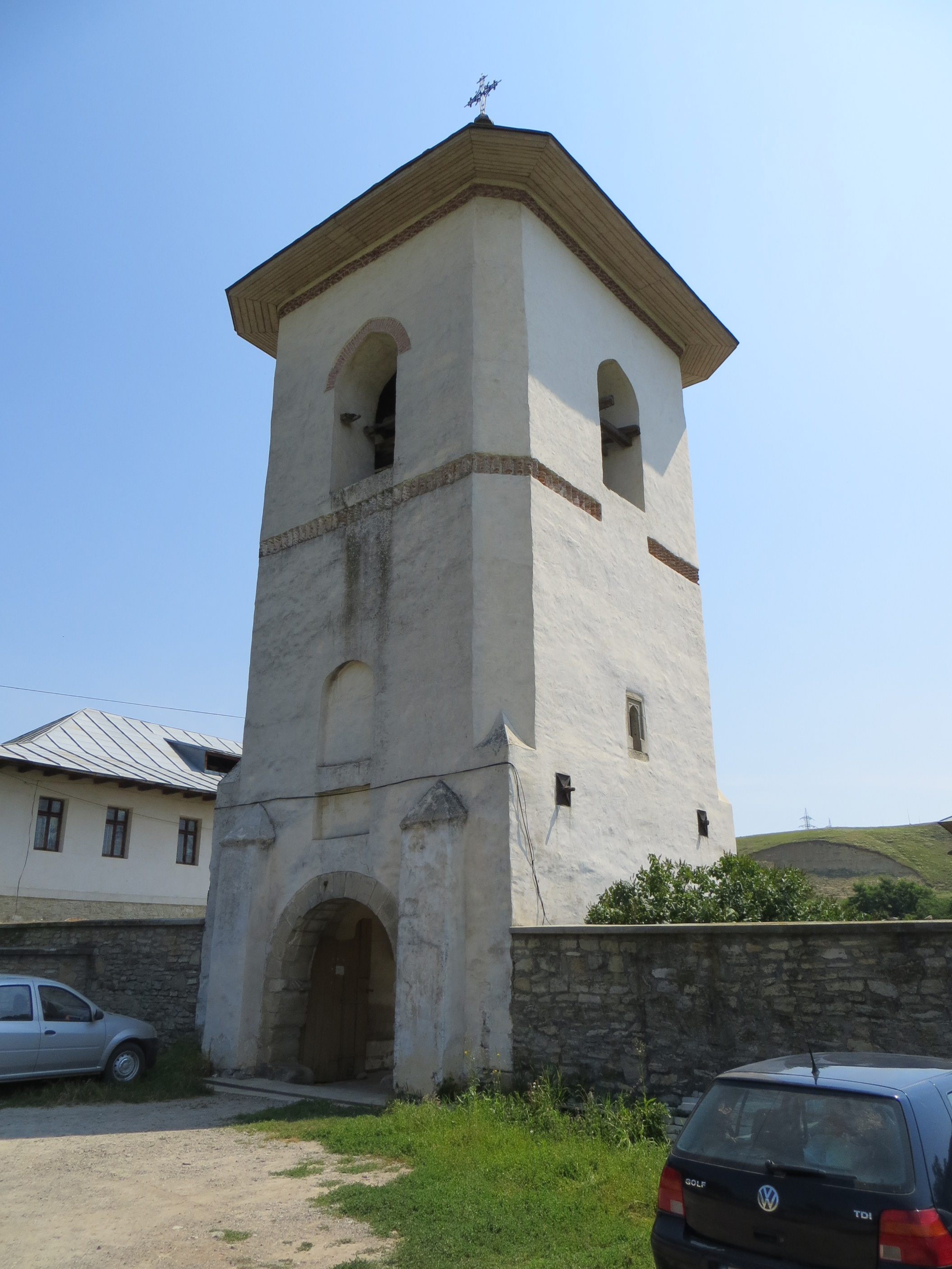 Teodoreni Monastery in Burdujeni, Suceava - the bell tower.